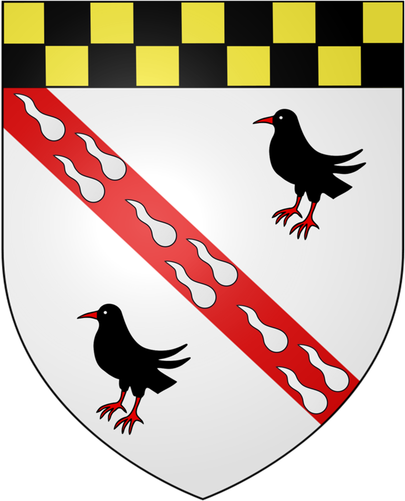 The coat of arms of the eminent Pleydell family of Lydiard Tregoze, Wiltshire.